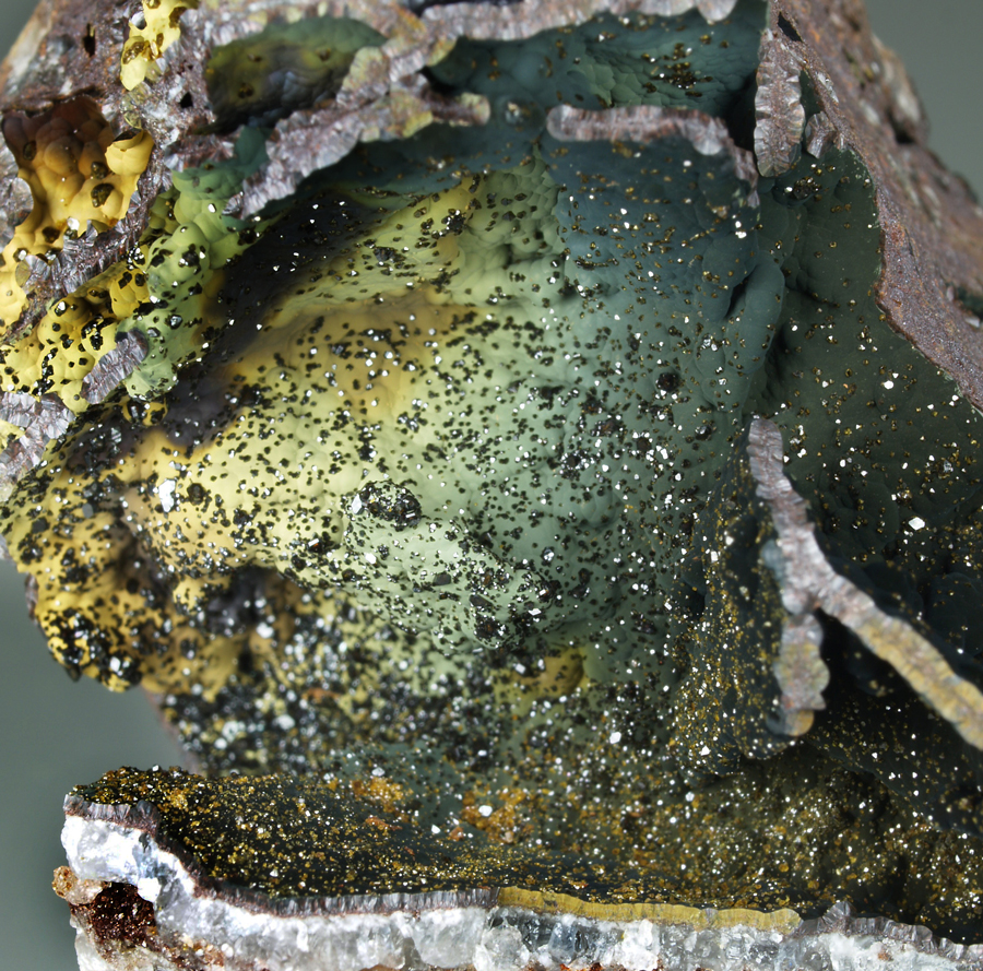 Locality: Serra da Mina, Cercal, Evora District, Portugal Class: Crystals on Matrix Size: 5 × 3.5 × 3 cm Description: This is a very rich corkite specimen formed by several extremely brilliant and lustrous crystals, peppering a colorfull goethite matrix. Corkite is an uncommon, low-temperature, secondary mineral occurring in the oxidised zones of hydrothermal base-metal deposits. Really amazing under loupe.